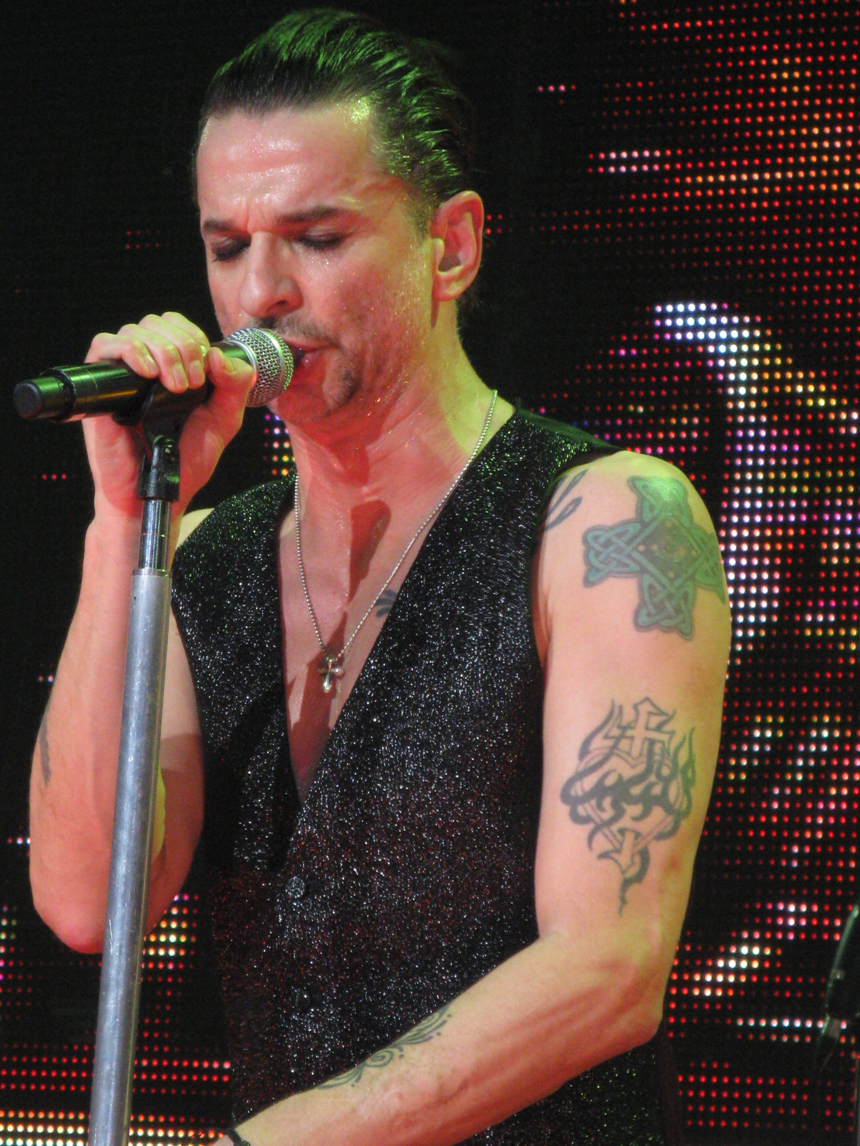 Dave Gahan performing at Royal Albert Hall, London.